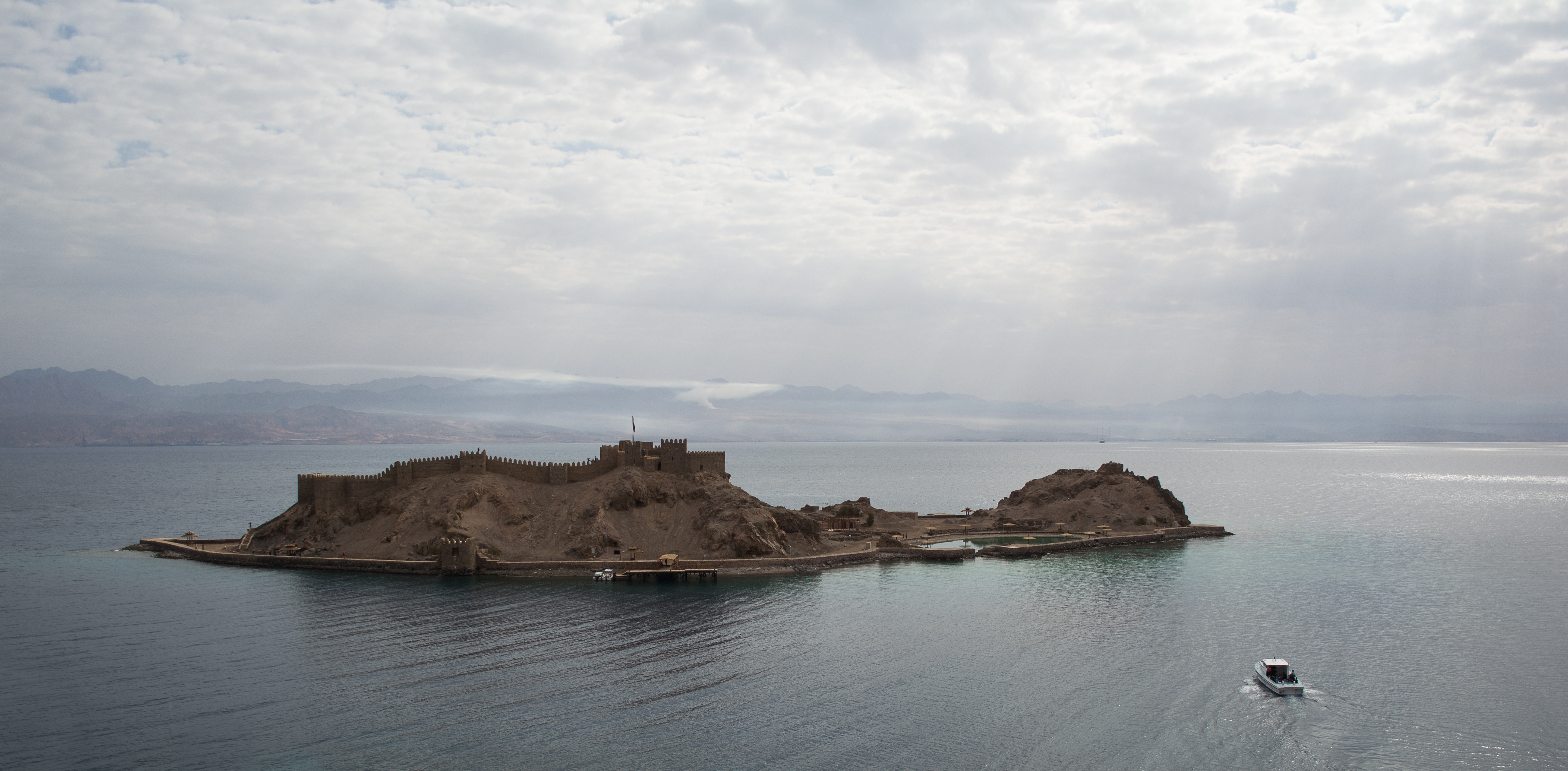 Salah El Din fortress is one of the most important Islamic heritage site in Sinai.